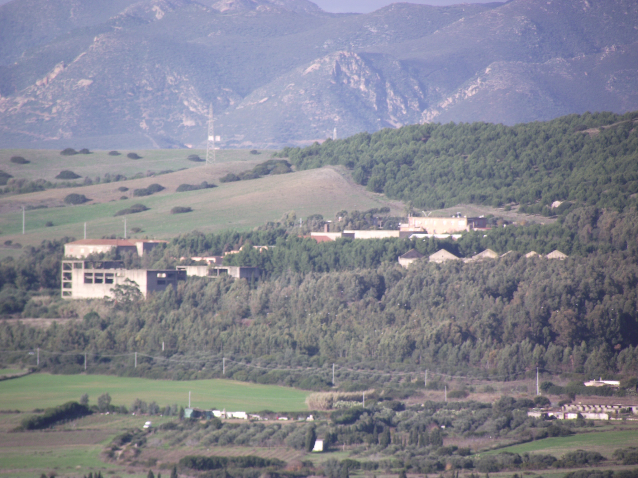 The buildings of the former Cortoghiana coalmine seen from Monte Sirai, in Carbonia, Sardinia, Italy